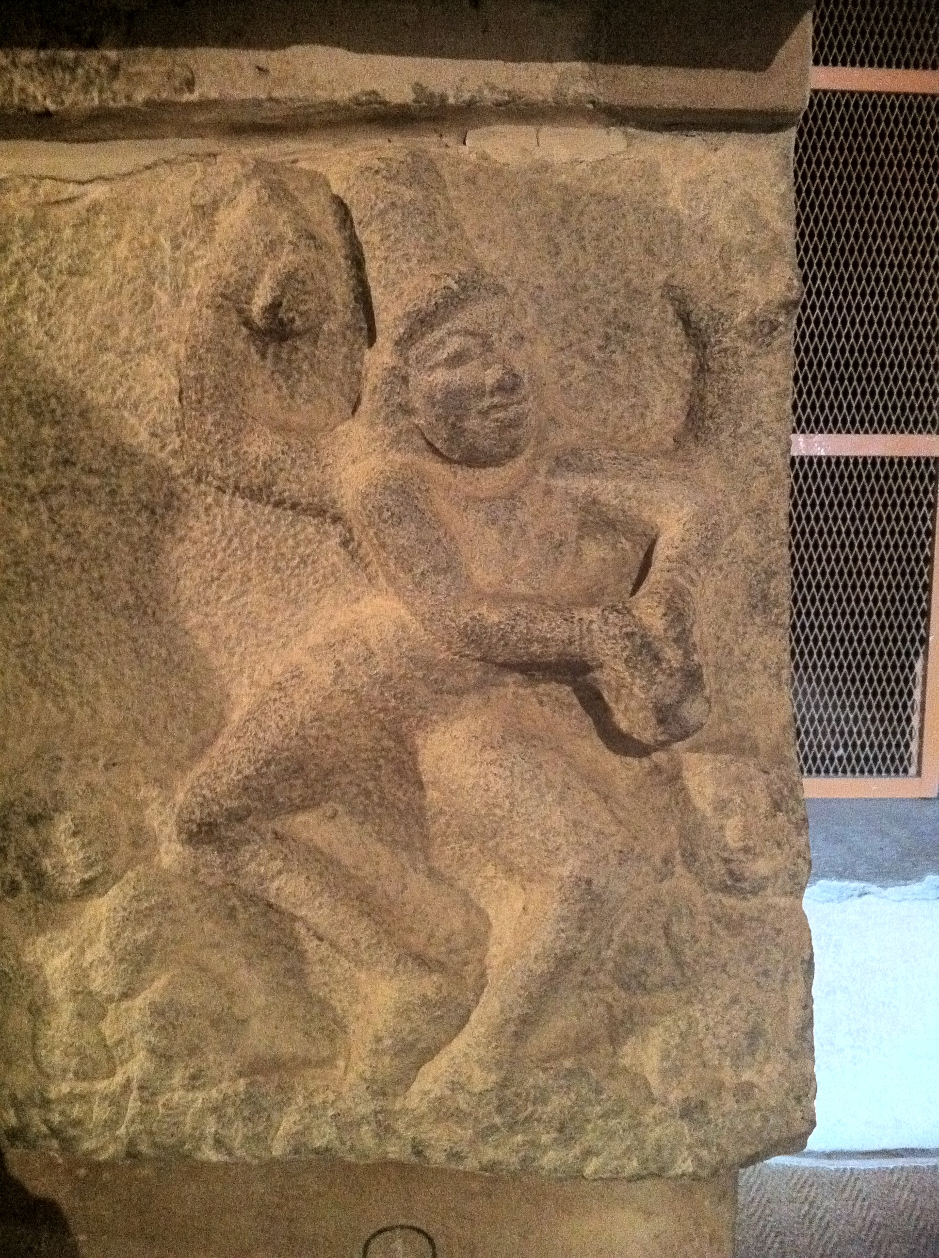 Peruvudaiyar Koyil Thanjavur one of the 81 dance postitions carved on the outer wall of the upper storey.